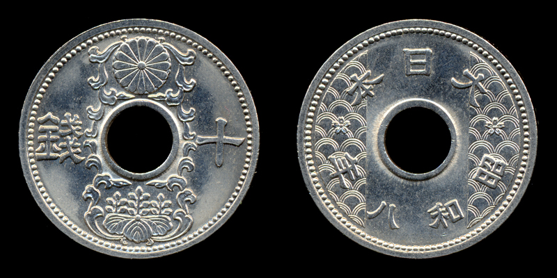 10sen-S8